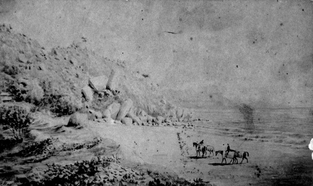 Finch's Bay, Cooktown, 1876 Photograph from a picture in sepia by P. Dodgson. Original photographer: W.T. Bennett, Cooktown. (Description supplied with photograph). Image shows two people on horseback on the beach.